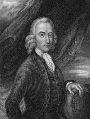 Portrait of